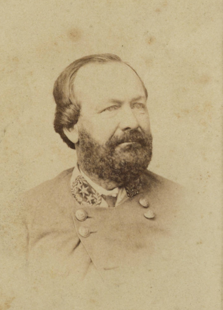 Title: Gen. Waul Alternative Title: [Brigadier General Thomas Neville Waul, Confederate States Army] Creator: B. Moses, Celebrated Photograph Gallery Date: ca. 1865 Part Of: Lawrence T. Jones III Texas photography collection Physical Description: 1 photographic print on carte de visite mount; 10 x 6 cm. File: ag2008_0005_2_1_038_c_waul_opt.tif Rights: Please cite DeGolyer Library, Southern Methodist University when using this file. A high-resolution version of this file may be obtained for a fee. For details see the web page. For other information, . For more information, View Lawrence T. Jones III Texas Photographs